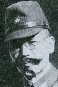 General Masakazu Kawabe (1886-1965)